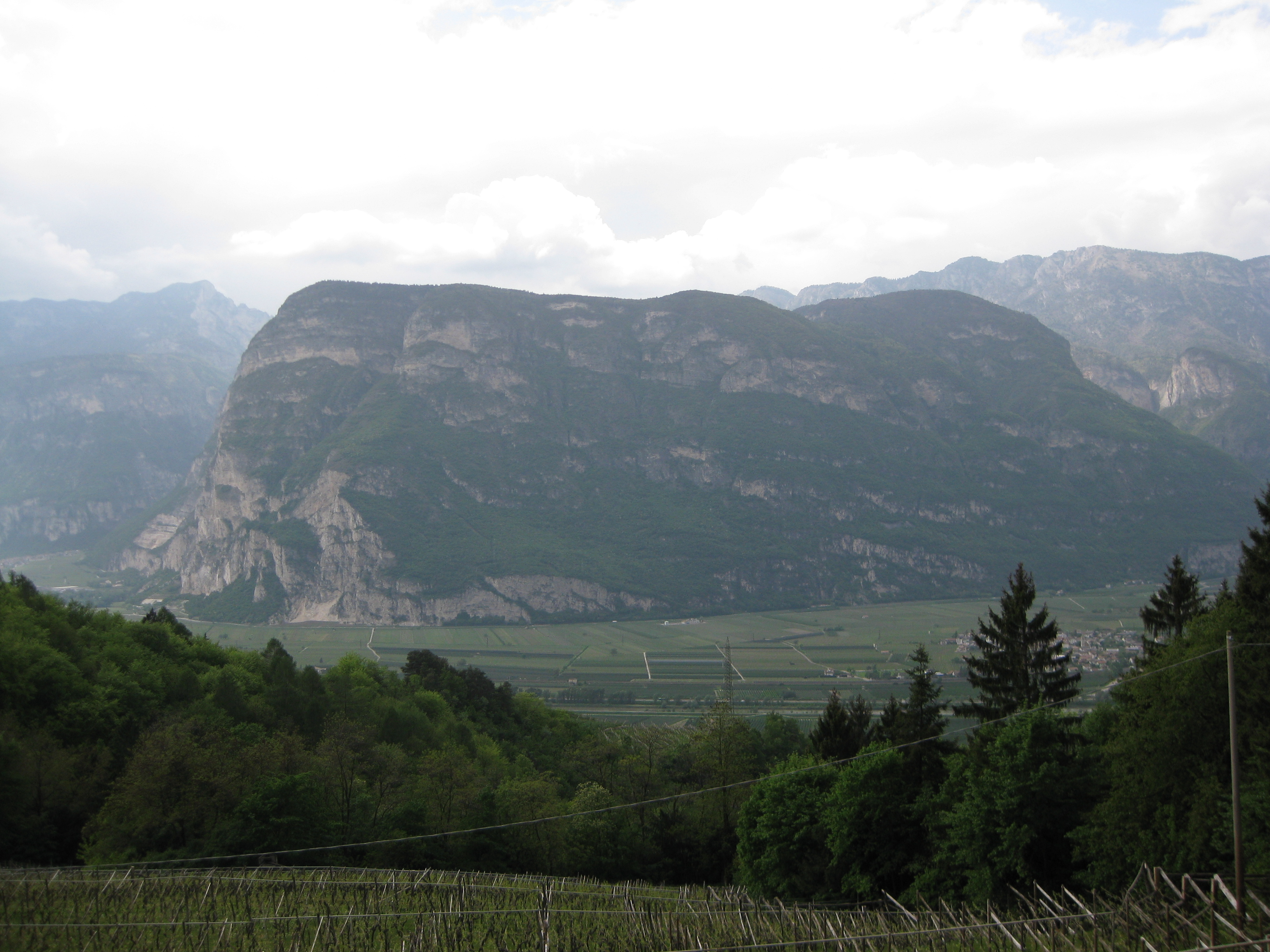 The Fennberg, a mountain in South Tyrol